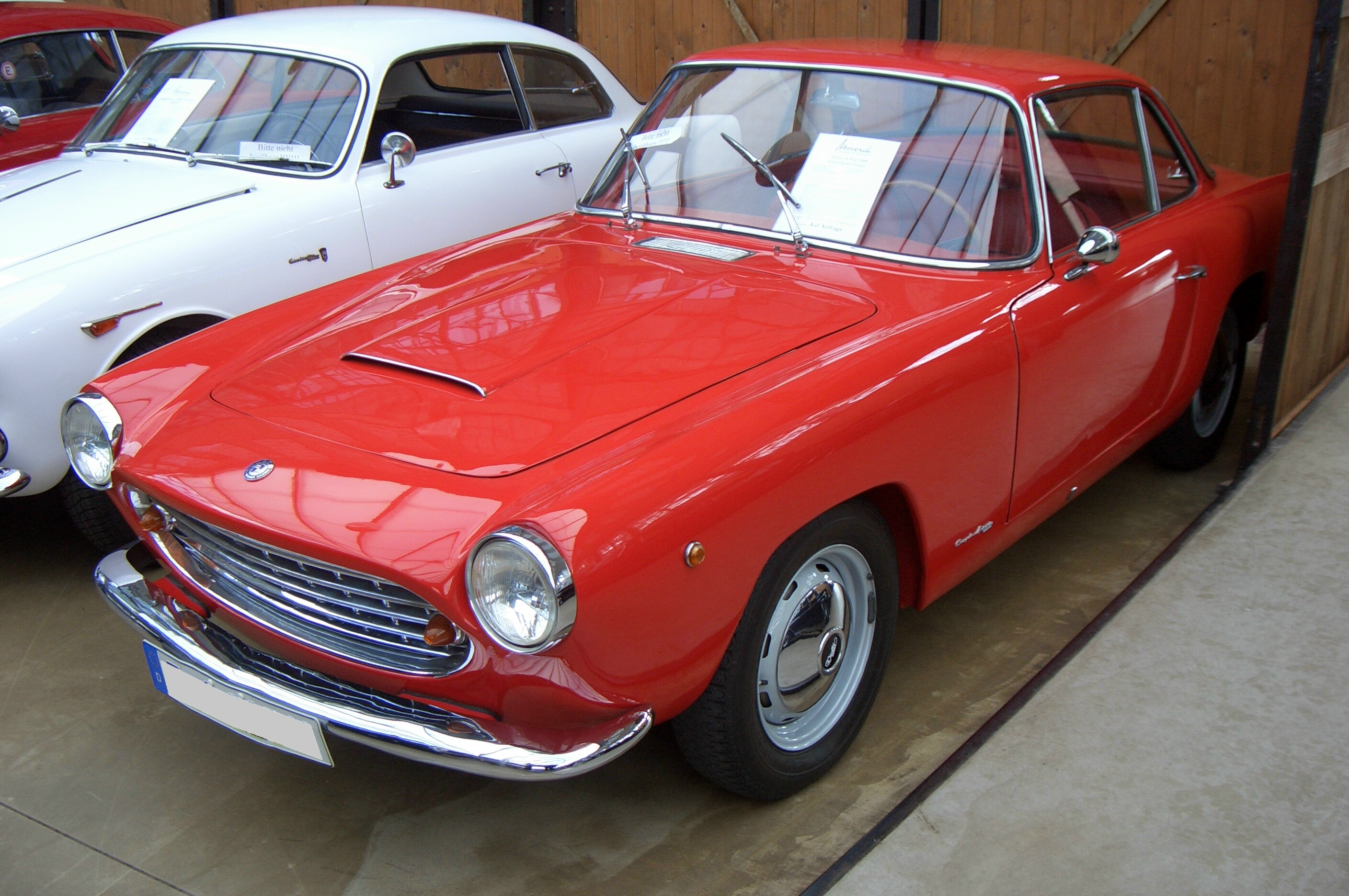 1957 O.S.C.A. Fiat 1500 Viotti Sport Coupé, seen at CLASSIC REMISE, Düsseldorf, Germany